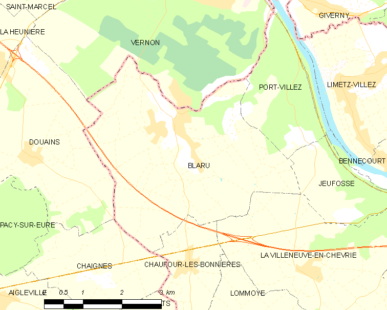 Map of French municipality Blaru